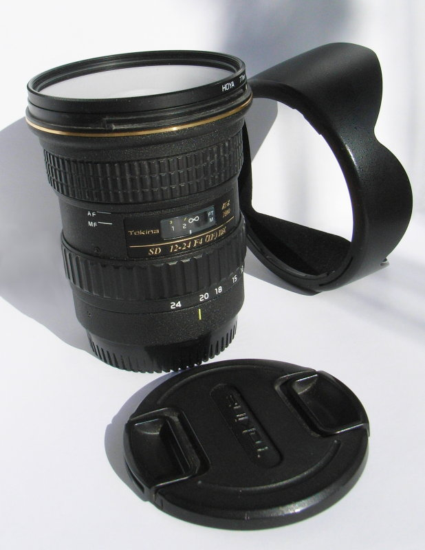 Tokina AF 12-24mm f/4 AT-X Pro DX